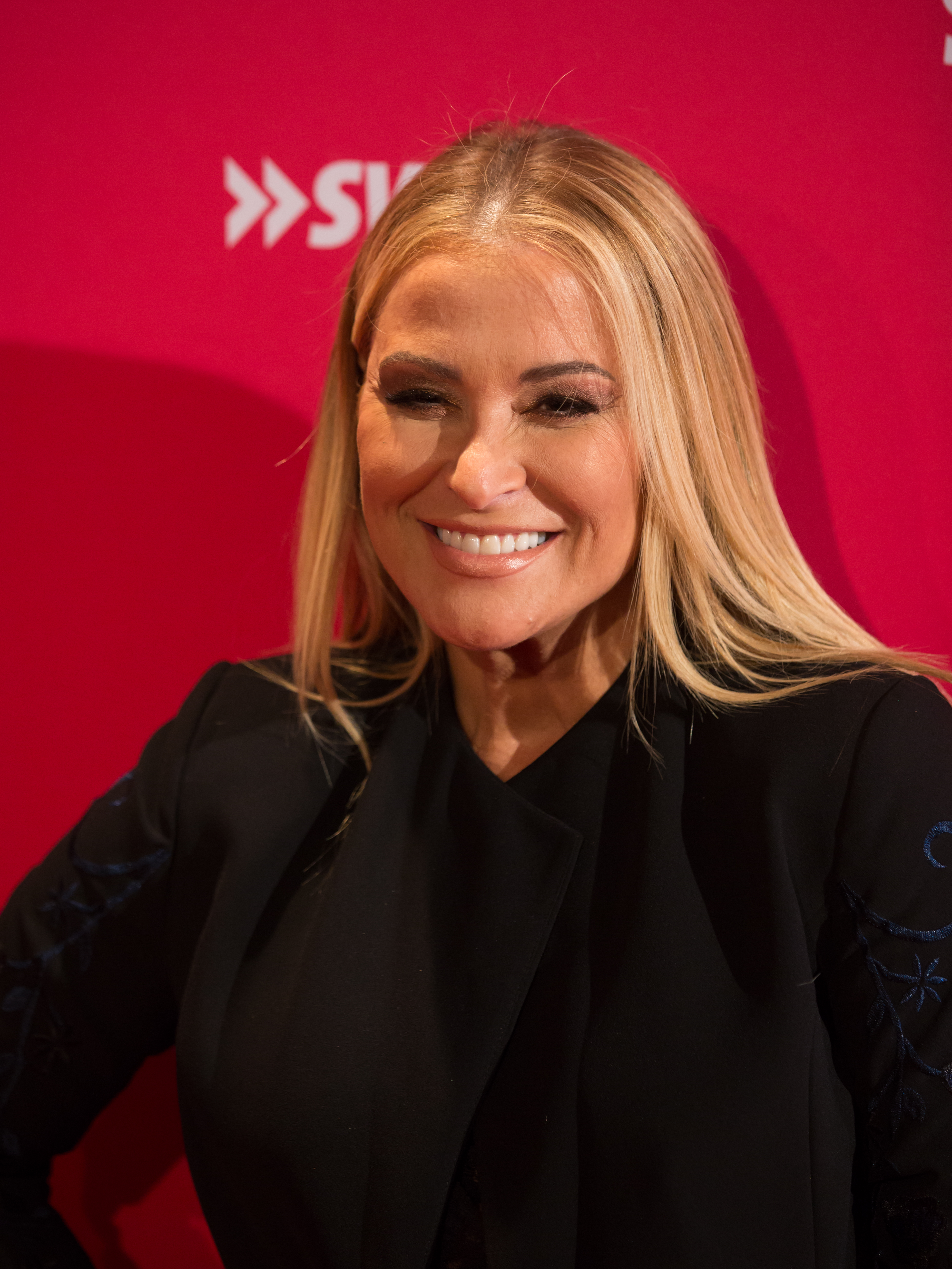 US-American singer-songwriter Anastacia at the SWR3 New Pop Festival 2017